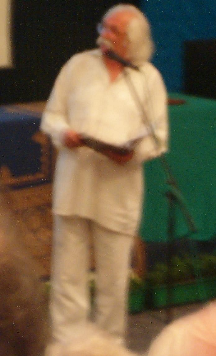 Béla Tolcsvay, folk-beat singer and musician